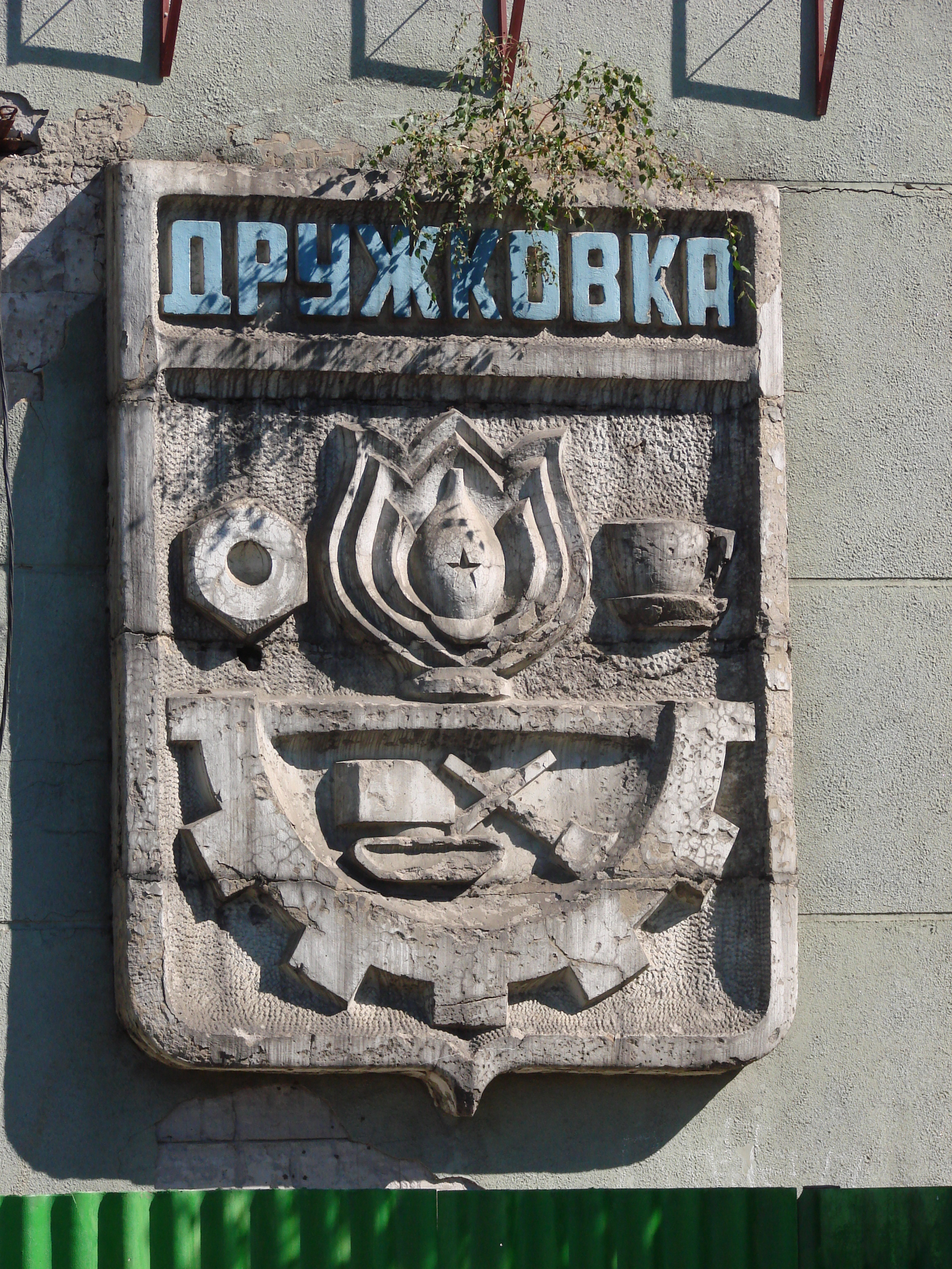 Soviet coat of arms of Druzhkivka, Donetsk Oblast, Ukraine